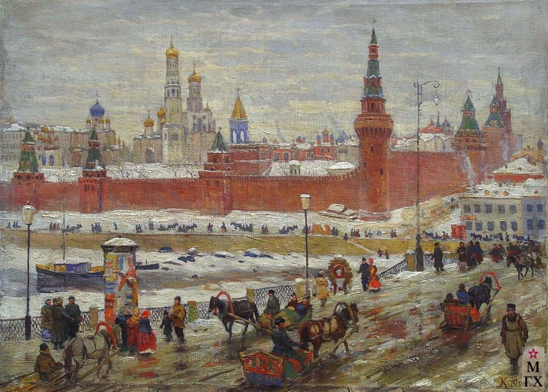 Old Moscow